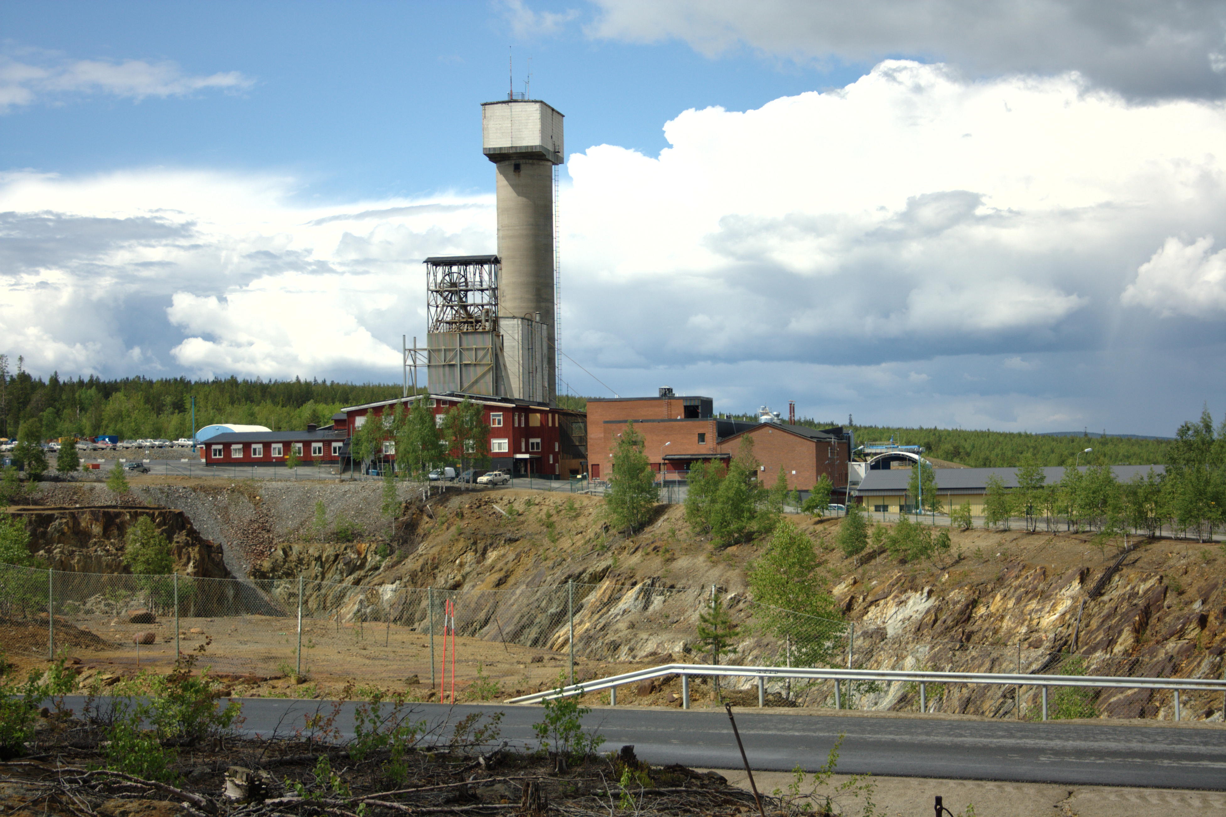 Kristineberg mine in Västerbotten County